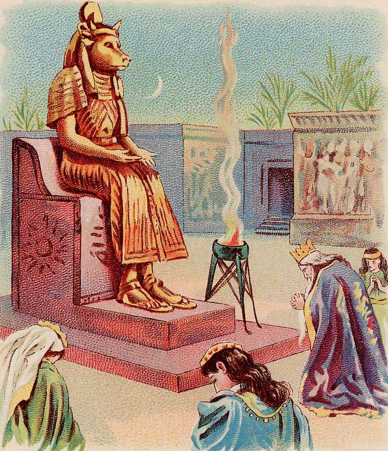 Solomon's Sin, as in 1 Kings 11:4-13, illustration from a Bible card published 1896 by the Providence Lithograph Company